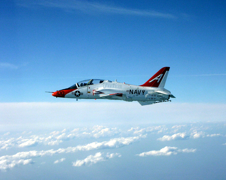 T-45A Goshawk aircraft in flight.